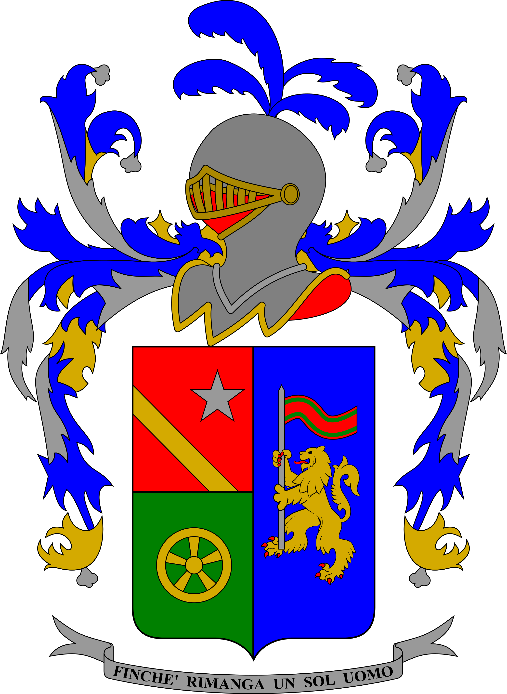 Coat of Arms of the 61st Infantry Regiment "Sicilia", Royal Italian Army, 1939